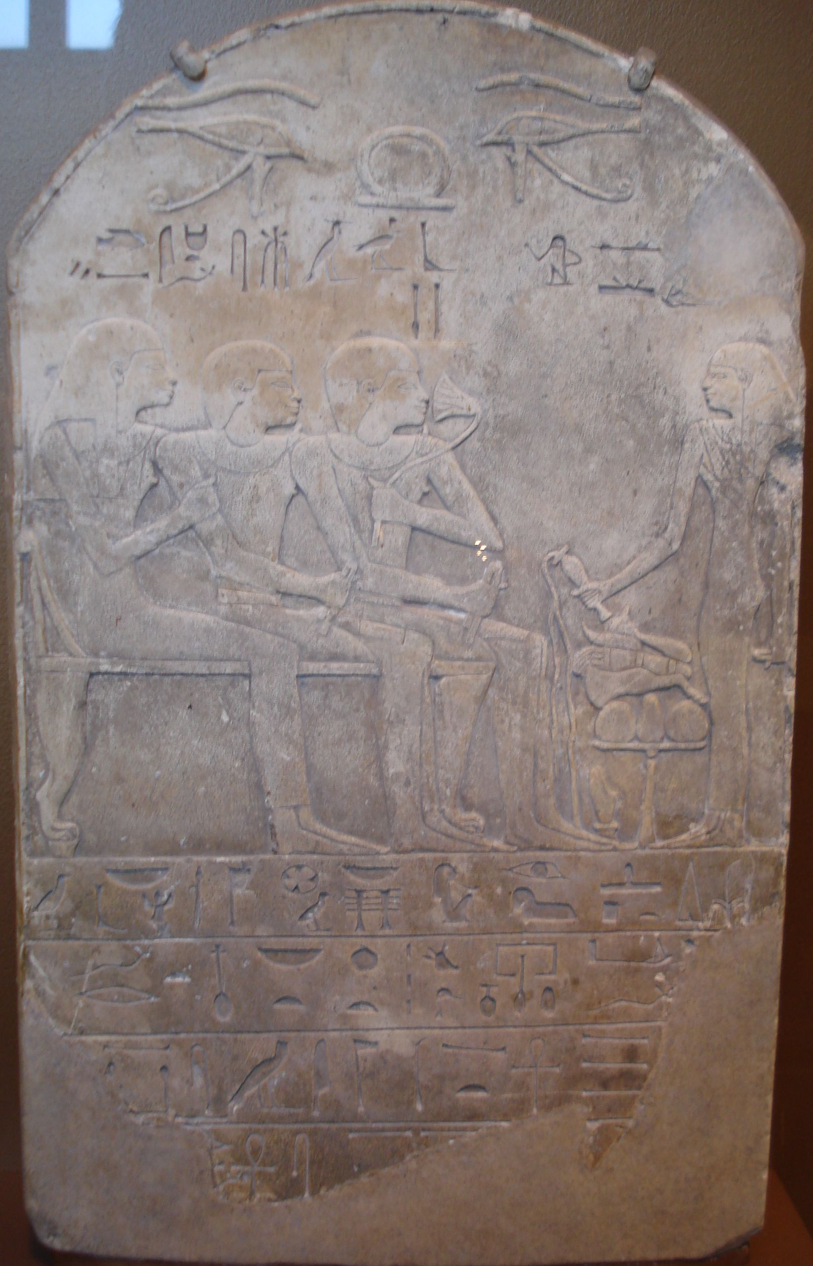 Ancient Egyptian funerary stele of a man named Ba (seated, sniffing a sacred lotus while receiving libations). Ba's son Mes and wife Iny are also seated. The identity of the libation bearer is unspecified. New Kingdom, Dynasty XVIII, c. 1550-1292 BC.